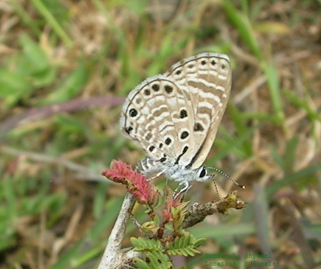 A lycaenid in Mudumalai laying eggs on Mimosa pudica